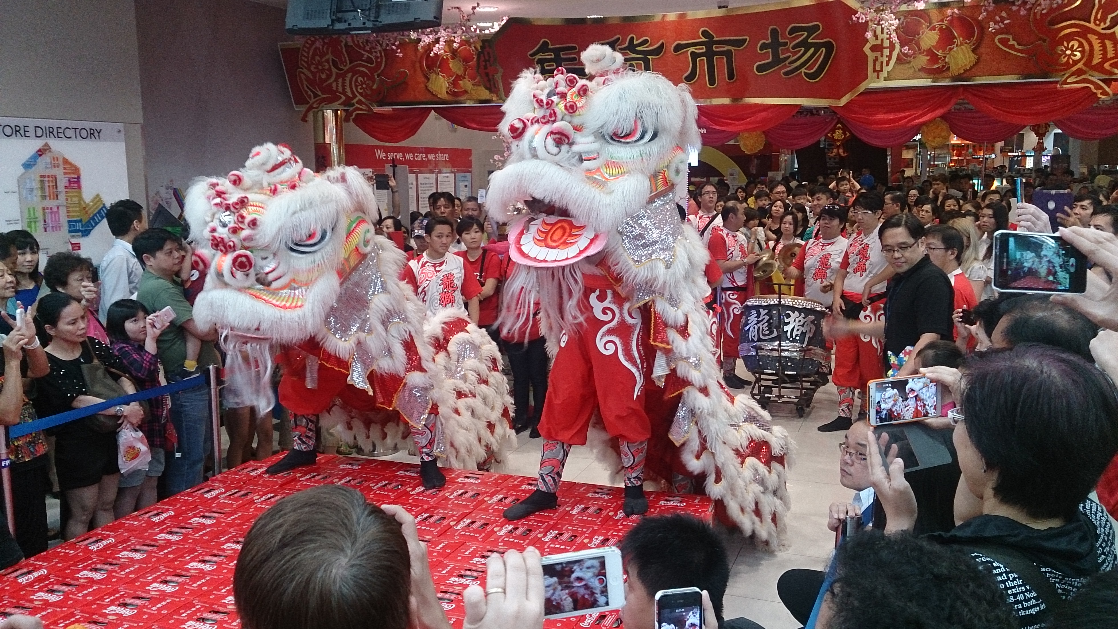 A lion dance during Chinese New Year in Singapore.